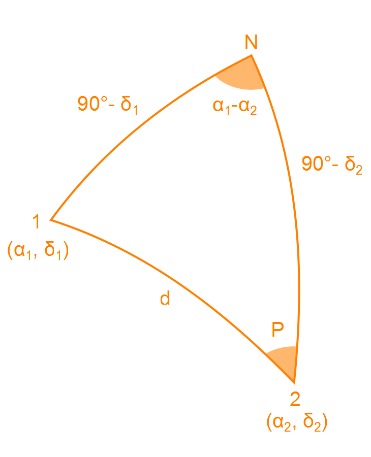 Diagram showing the spherical triangle used for deriving the formula for the astronomical position angle of point 1 with respect to point 2. The corners of the triangle are the north celestial pole N, point 1 (with celestial coordinates alpha1 and delta1) and point 2 (with celestial coordinates alpha2 and delta2). The angle P at point 2 is the position angle of point 1 with respect to point 2. A formula for P can be derived, applying spherical trigonometry to this triangle.